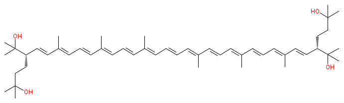 Structure of bacterioruberin.